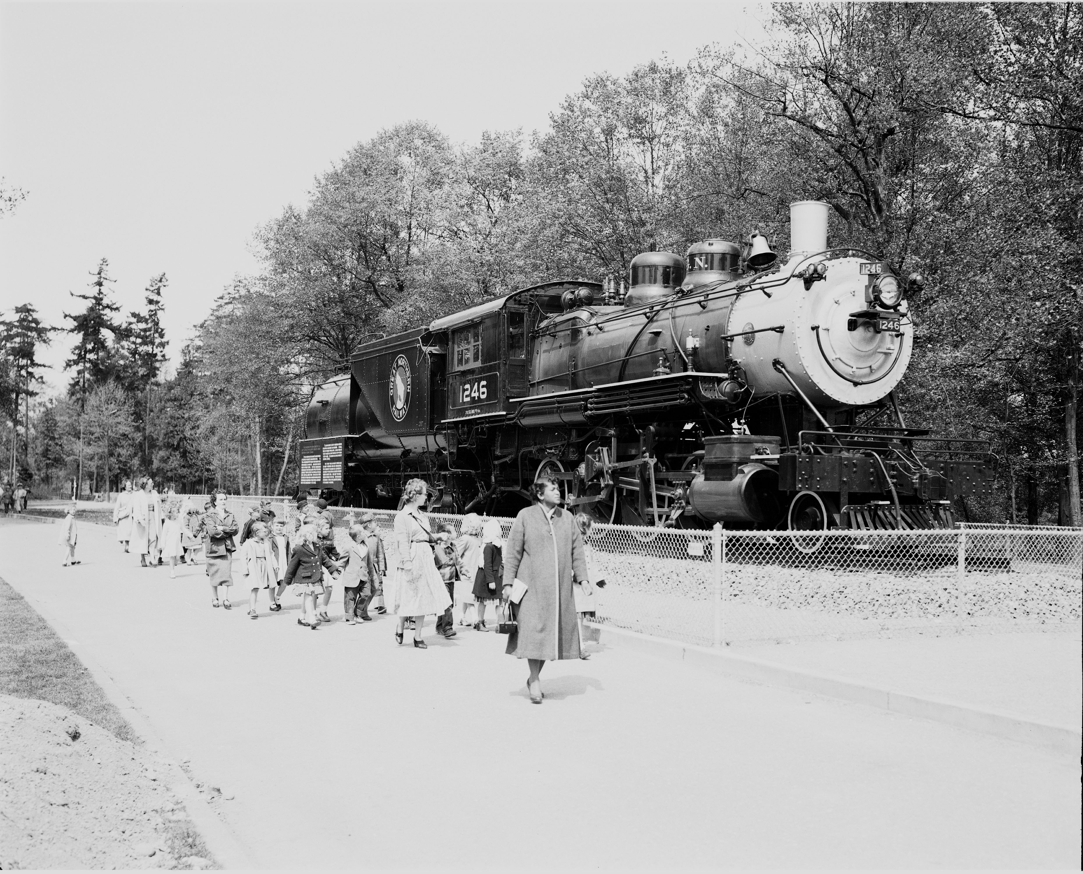 Great Northern steam locomotive at Woodland Park, Seattle, Washington, U.S., 1954. More information about this locomotive here. Item 78425, City Light Photographic Negatives (Record Series 1204-01), Seattle Municipal Archives.